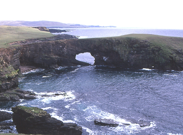 Aesha Head – one of the many fine stretches of coast on Papa Stour. Aesha Head is the furthest west point of the main island, though there are various smaller islands and skerries beyond.